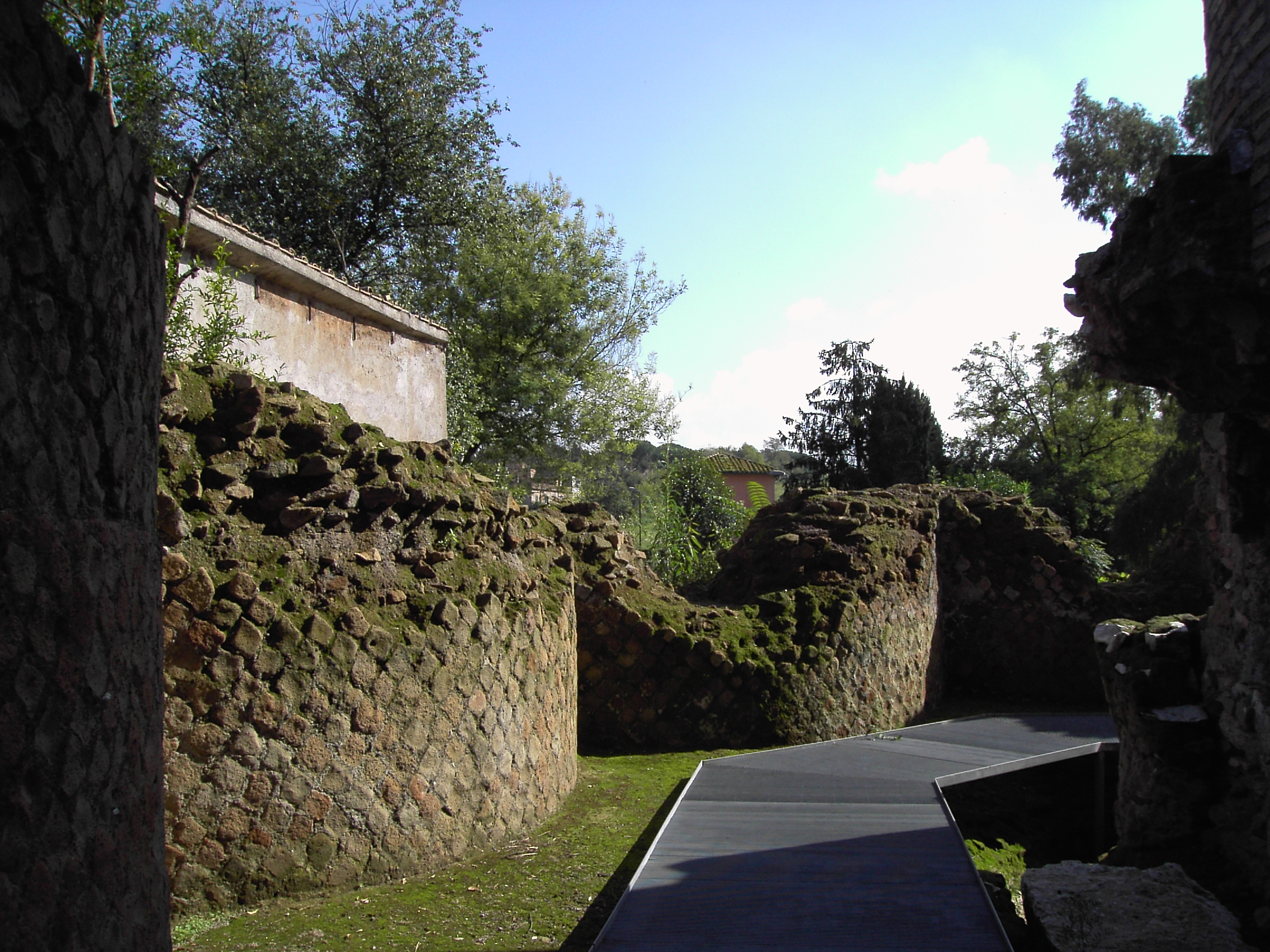 Rome, Via Appia Antica, the tomb of Priscilla - internal view of the niches